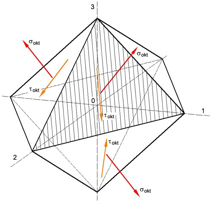 Octaeder shear stress